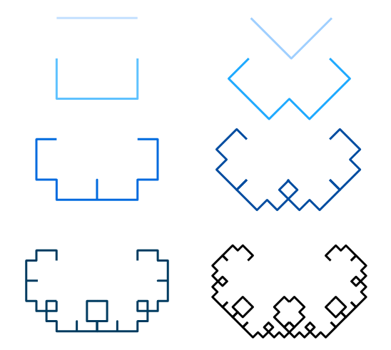 Diagram of fisrt 8 stages in construction of Lévy C curve